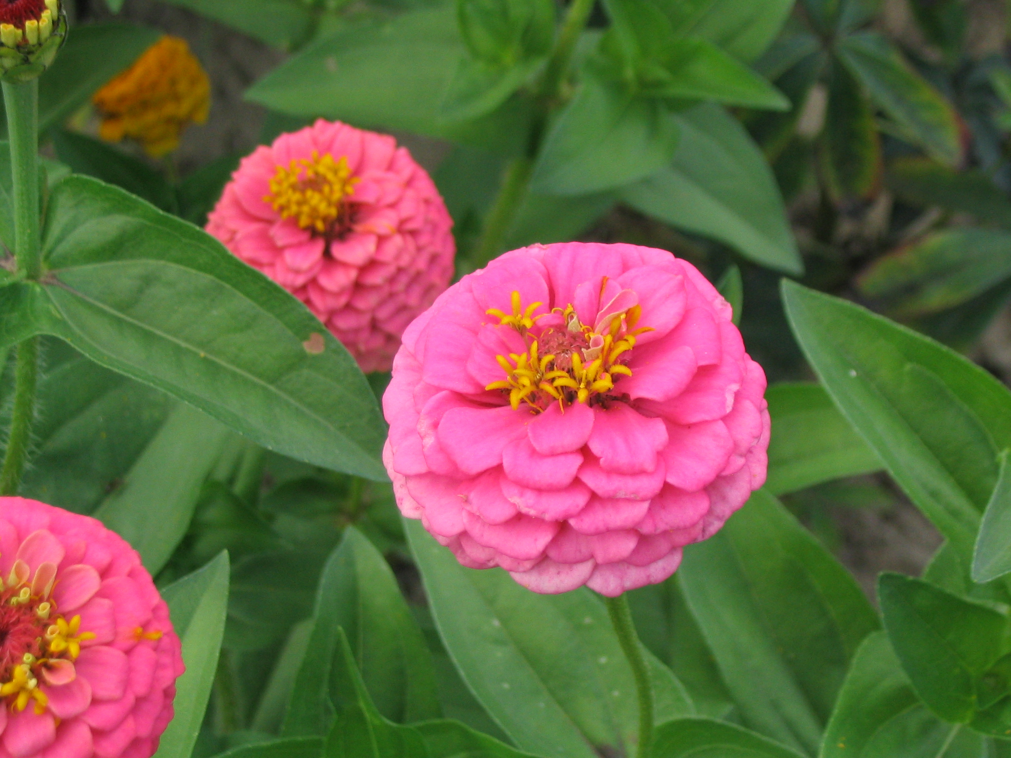 Zinnia elegans Author: Goku122